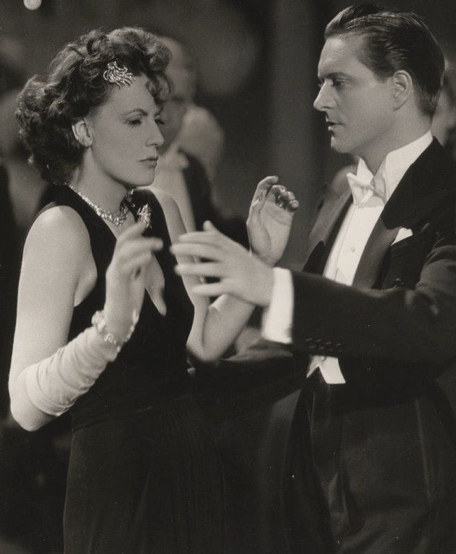 Greta Garbo and Robert Alton in Two-Faced Woman (1942) - publicity still (cropped)